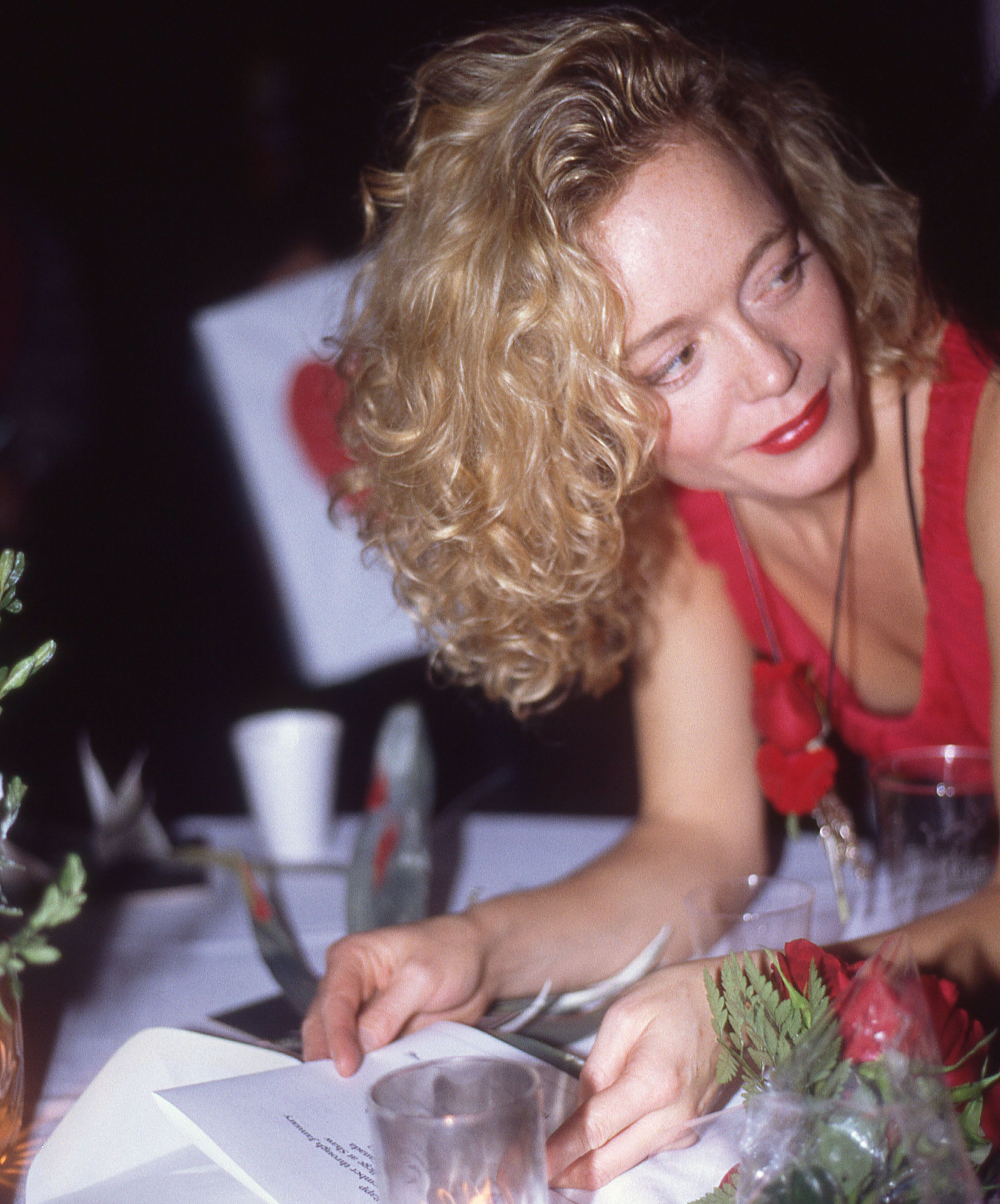 Rebecca Jenkins, at benefit for community centre, Toronto